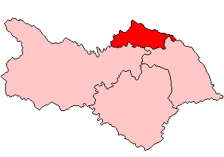 Cleveland Parliamentary Constituency, 1918-1974, shown within The North Riding of Yorkshire.